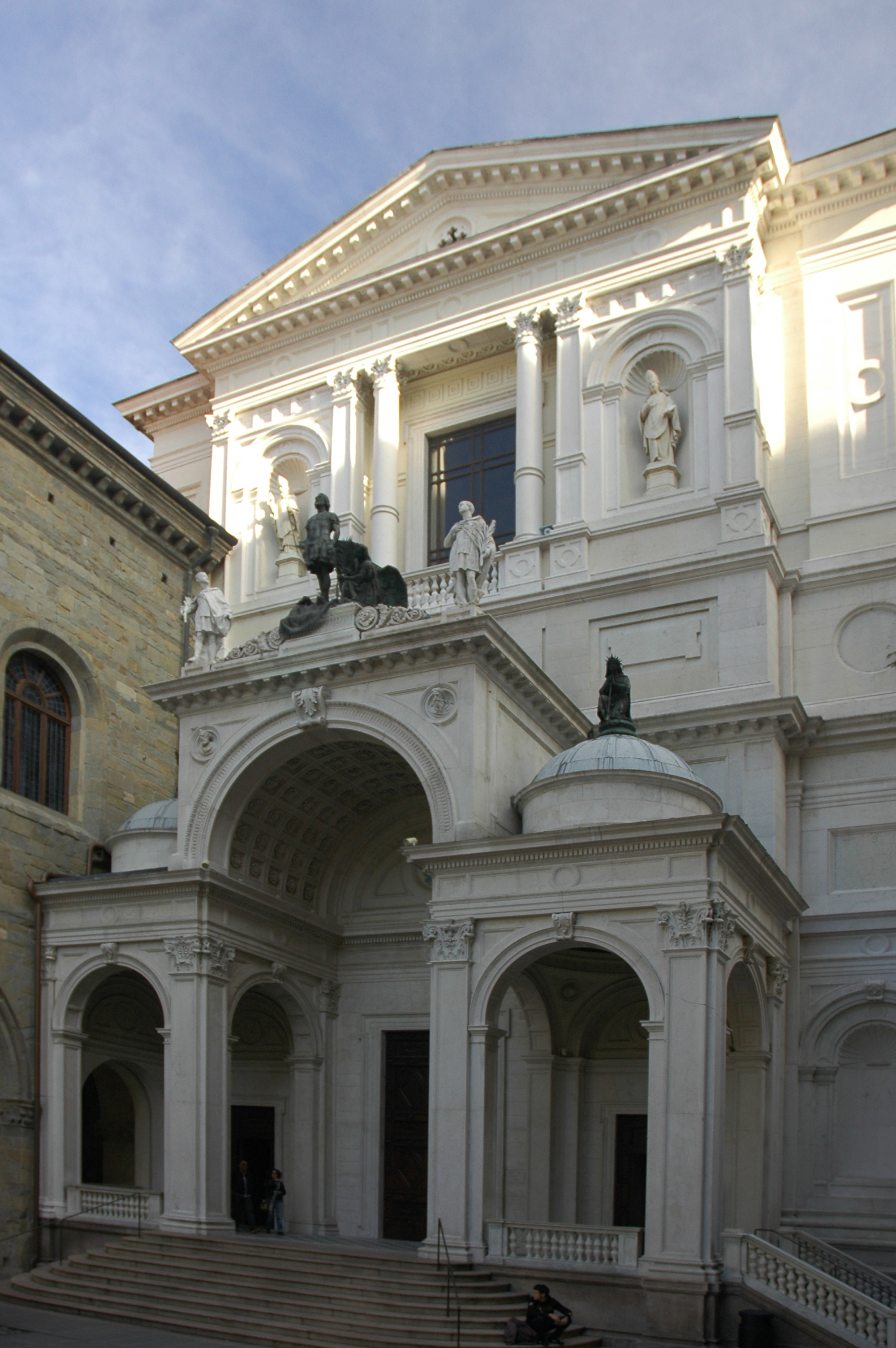 Bergamo, Lombardy, Italy - Facade of Duomo